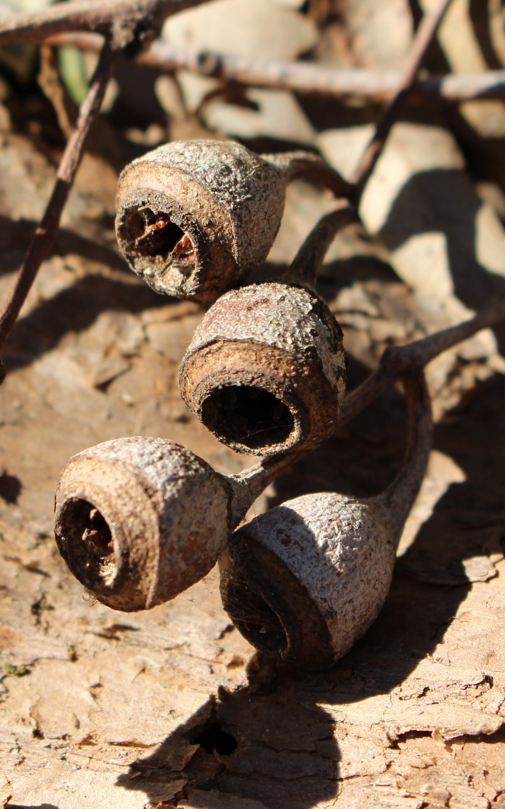 Woollybutt (Eucalyptus longifolia) Norfolk Reserve, Greenacre